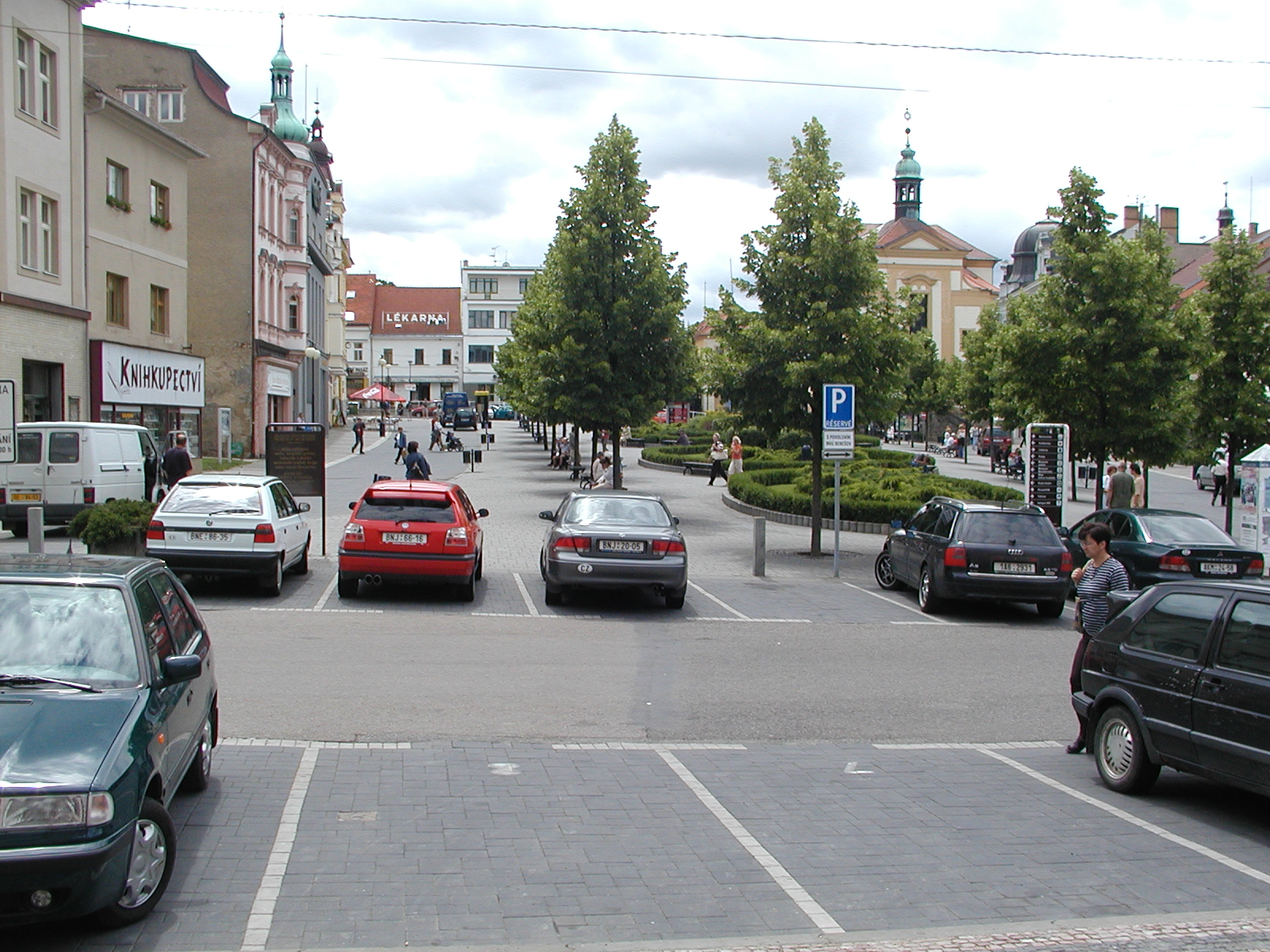 Masarykovo square in Benešov (Czechia)